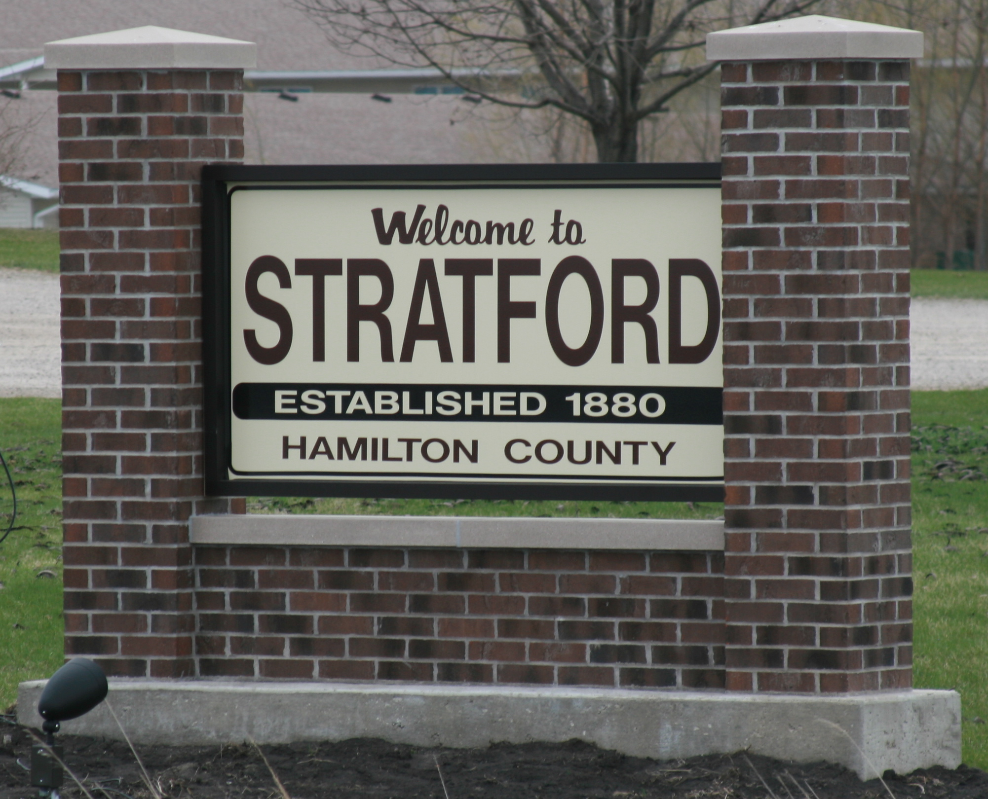 Welcome sign for Stratford, Iowa